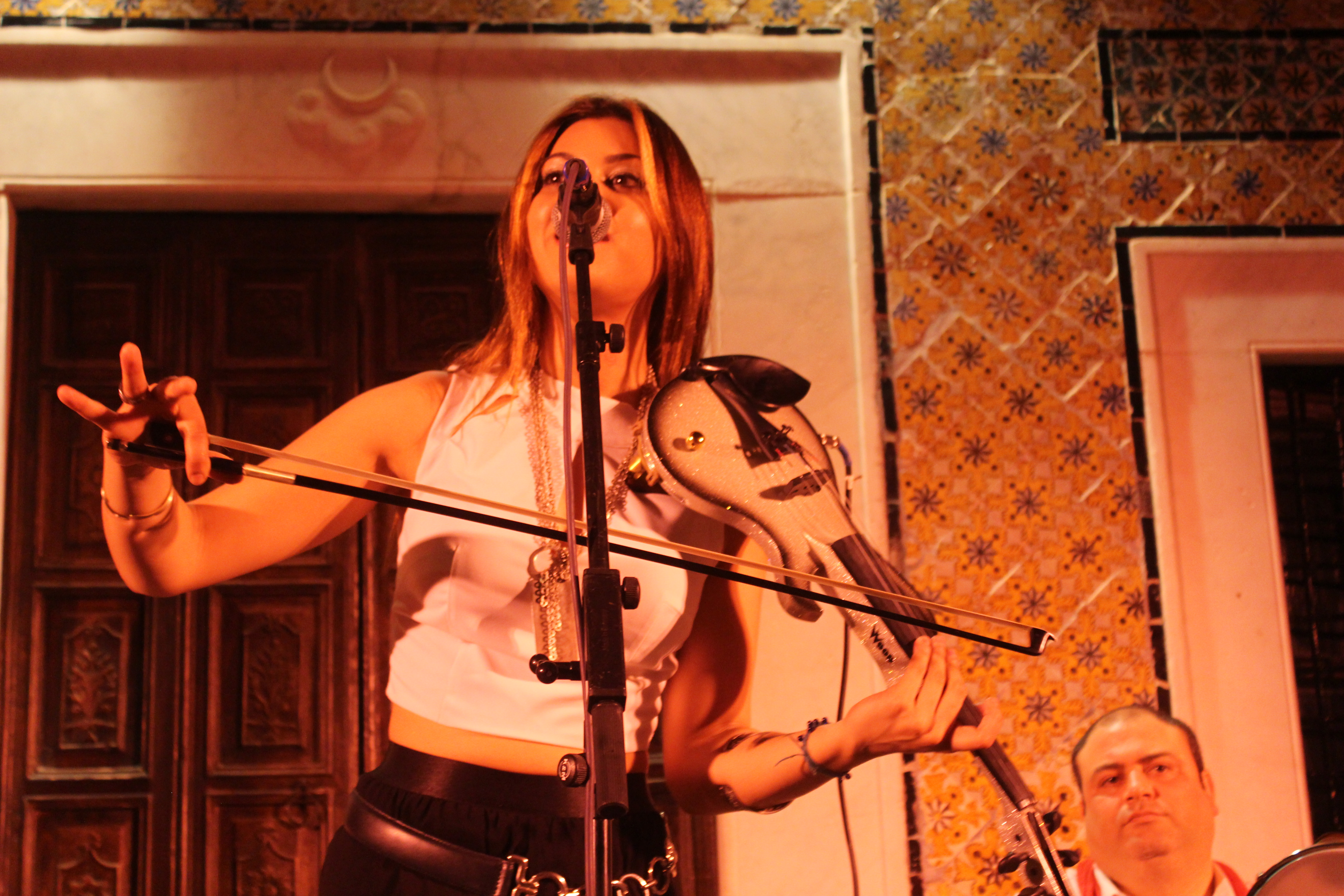 This is an image of music and dance from Tunisia